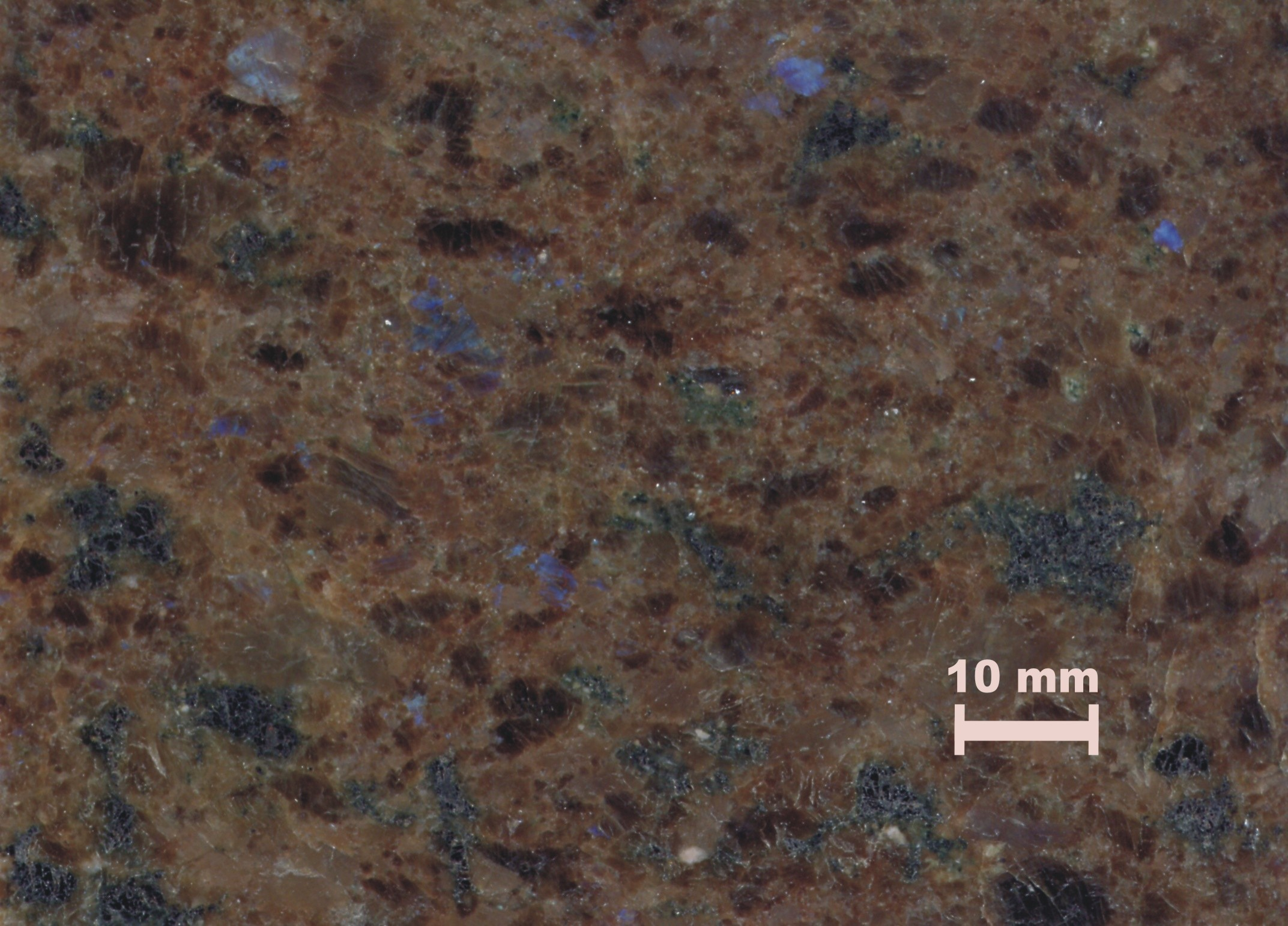 Anorthosite from Sirevåg / Norway